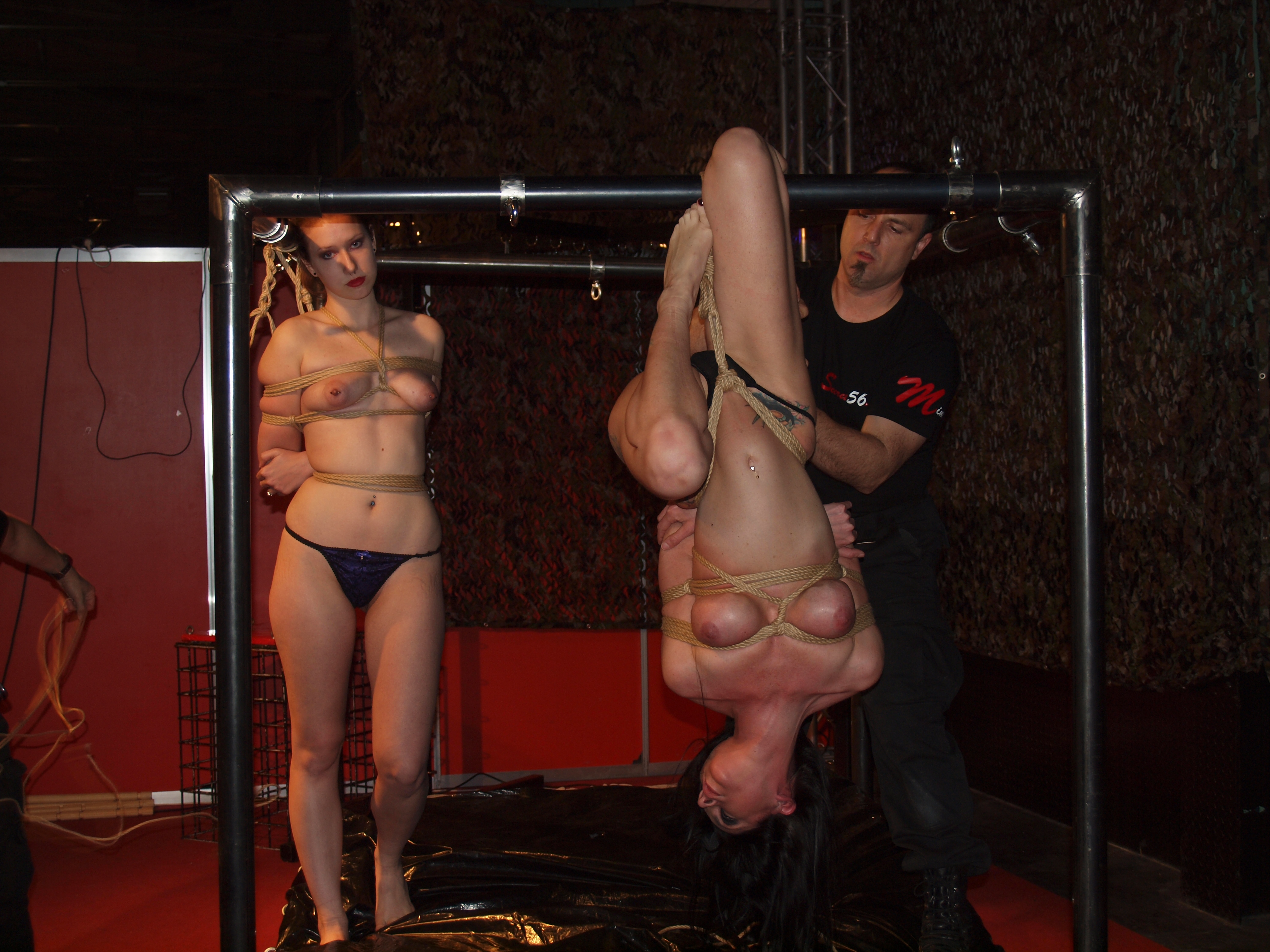 Two topless women being bound to a support frame at the custom photoshoot #8 in BoundCon 2013 in Munich, Germany.